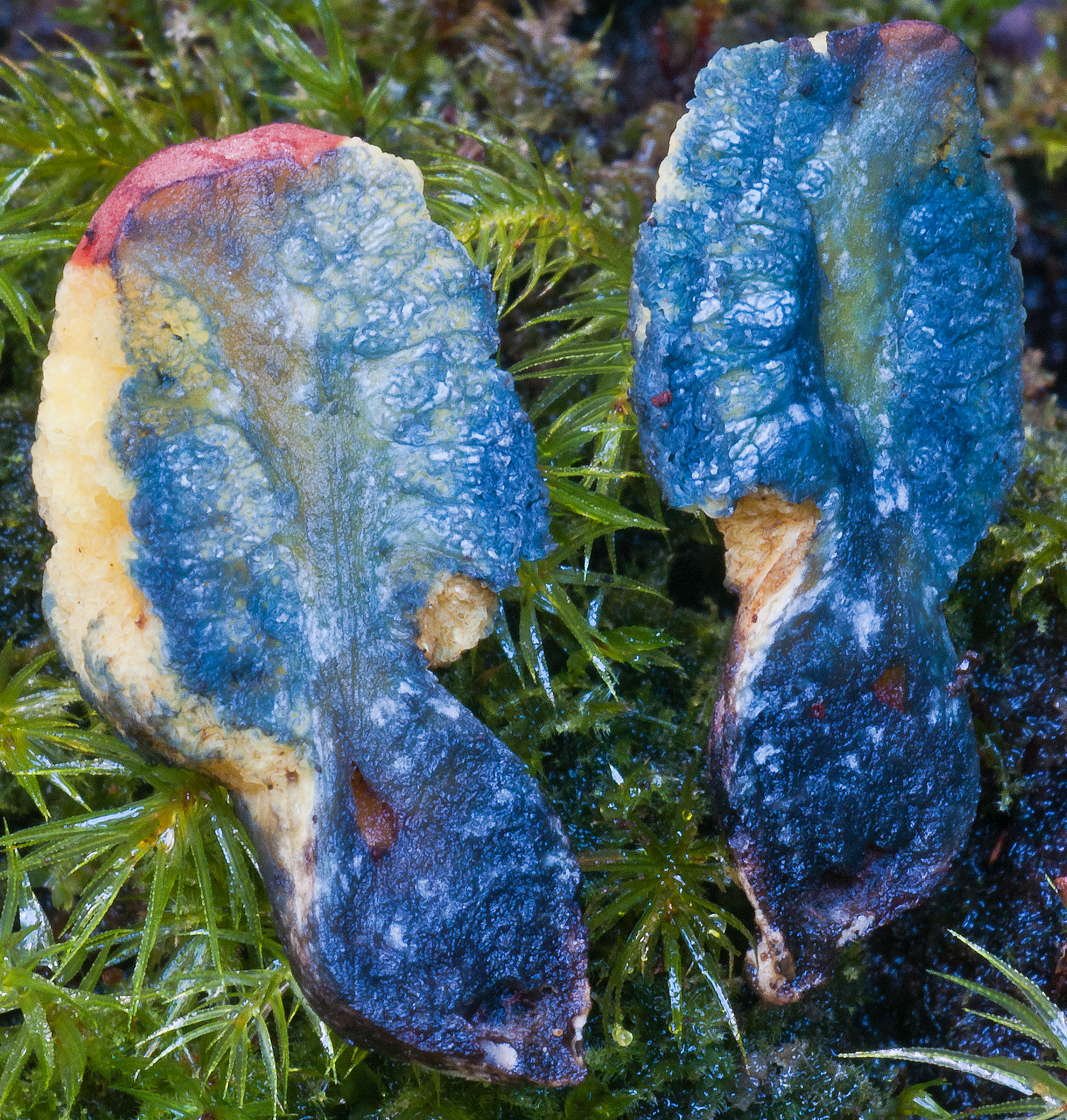 Fruit bopdy of the secotioid fungus Gymnogaster boletoides J.W. Cribb sliced in half to reveal the bluing reaction. Specimen collected in Wilson River Primitive Reserve, New South Wales, Australia.